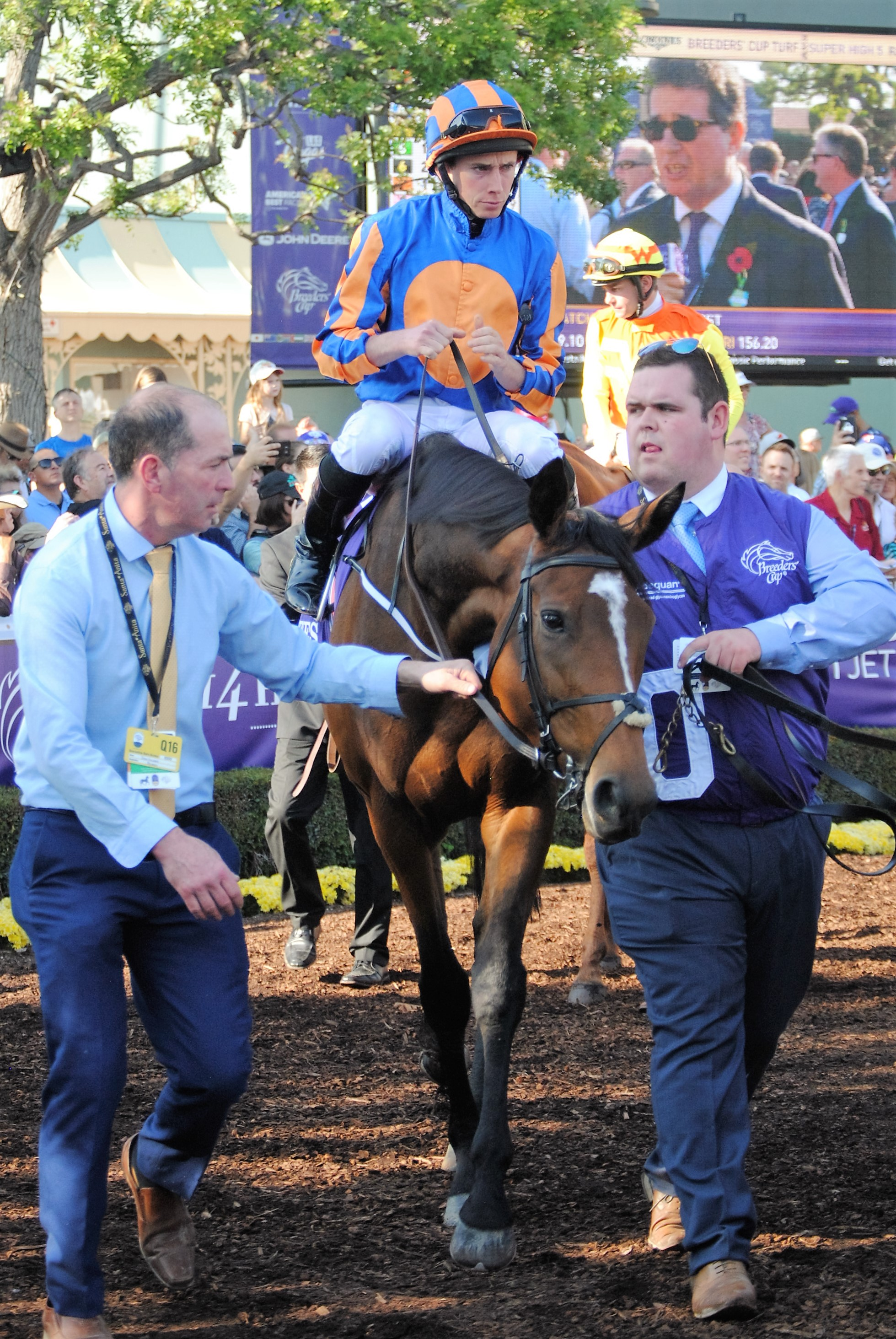 Found ready for the Turf